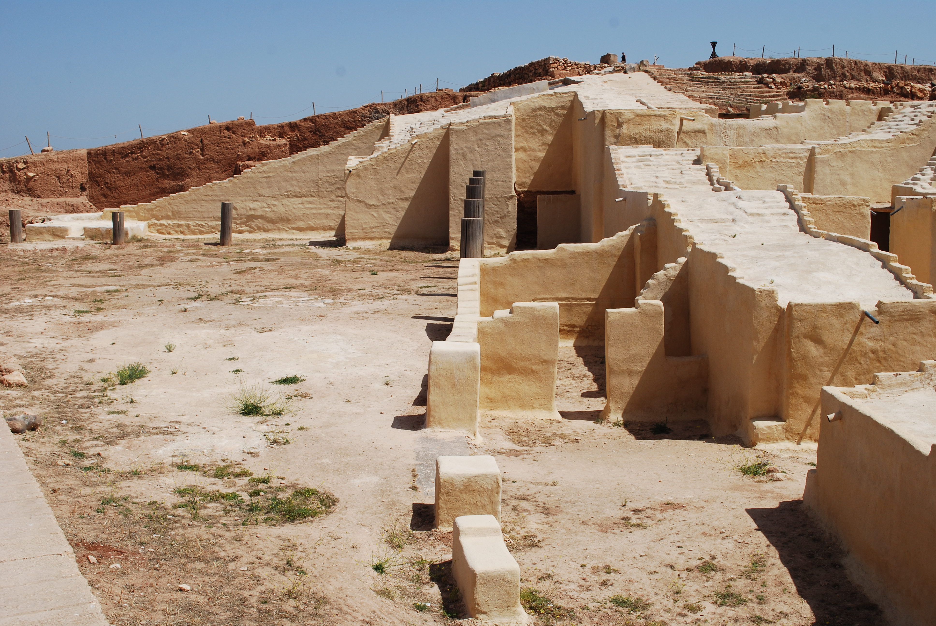 Royal palace G, Ebla in 2004